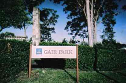 Cenotaph behind hedges, Gair Park. Disposable camera photo taken by User:Shirt58 in January 2009.